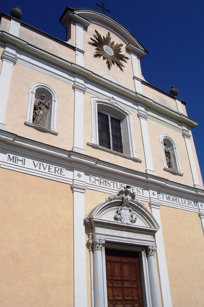 Parish church of the Conversion of st Paul. Esine, Val Camonica